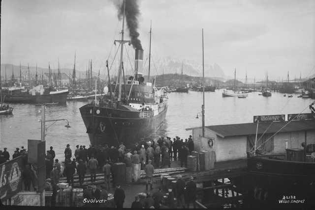 Norwegian coastal express ship (Hurtigruten) DS Finmarken (built in 1912) in Svolvær.